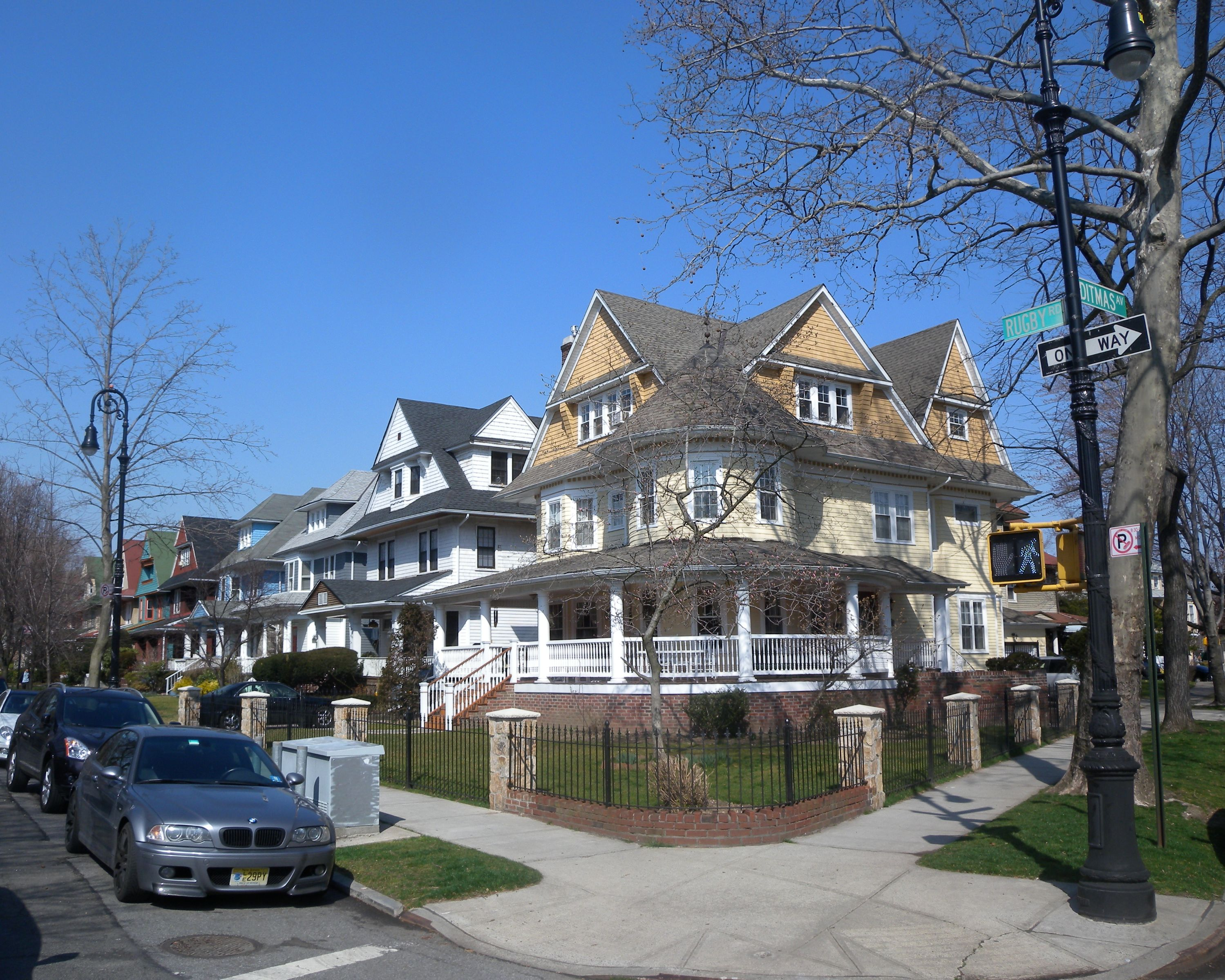 Looking northeast from Ditmas Avenue and Rugby Road at a house on a sunny midday.